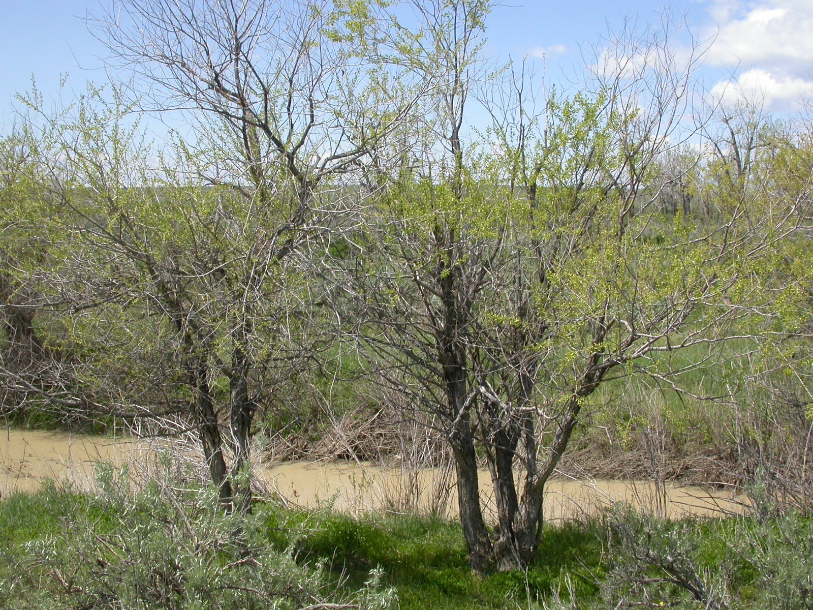 This aborescent willow, Salix amygdaloides, is somewhat common along the main riparian courses in this area (e.g., Telegraph Creek) but not along the minor ones (e.g., Box Elder Creek).